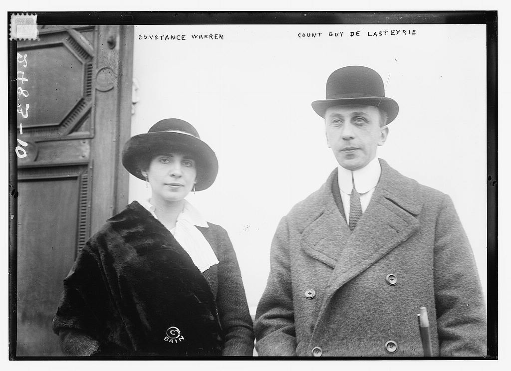 Bain News Service, publisher. Constance Warren and Count Guy de Lasteyrie [between 1910 and 1915] 1 negative : glass ; 5 x 7 in. or smaller. Notes: Title from negative. Photo shows sculptor Constance Whitney Warren (1888-1948), who married Count Guy de Lasteyrie in 1912. (Source: Flickr Commons project, 2008) Forms part of: George Grantham Bain Collection (Library of Congress). Format: Glass negatives. Repository: Library of Congress, Prints and Photographs Division, Washington, D.C. 20540 USA, General information about the Bain Collection is available at Persistent URL: Call Number: LC-B2- 2483-10